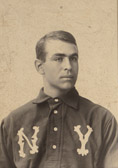 Dave Fultz cropped from File:New York Highlanders Baseball Team, 1903.jpg Accession No.: 06_06_000176 Title: New York Highlanders Baseball Team, 1903 Caption: New York Americans. 1903 Creator: Horner, Charles J. Date: 1903 Format: photograph Description: Individual portraits on mount with decorative vignettes in ink wash. In center, portrait of Clark Griffith, pitcher. Top row, left to right, Dave Fultz, outfielder, Kid Elberfield, shortstop, Wid Conroy, third baseman, Jack Chesbro, pitcher, Monte Beville, catcher, Jack O'Connor, catcher. Middle row: John Deering, pitcher, Jimmy Williams, second baseman, Griffith, Jack Zalusky, catcher, Lefty Davis, outfielder. Bottom row: Wee Willie Keeler, Jesse Tannehill, pitcher, Harry Howell, pitcher, Herm McFarland, outfielder, John Ganzel, first baseman. BPL Collection: McGreevey Collection BPL Department: Print Subject: Baseball--History New York Yankees (Baseball team)